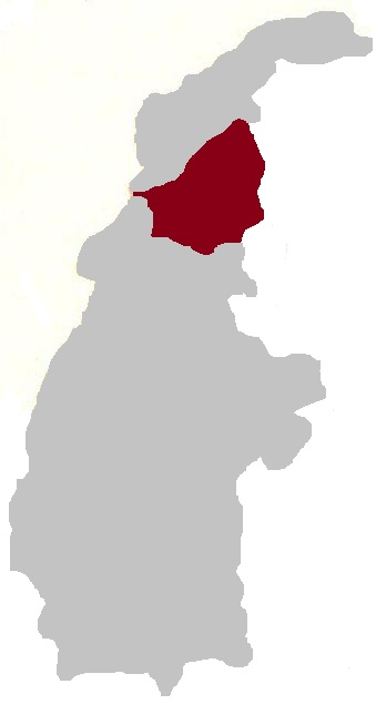 Hkamti Township roughly highlighted in Sagaing Region, Burma